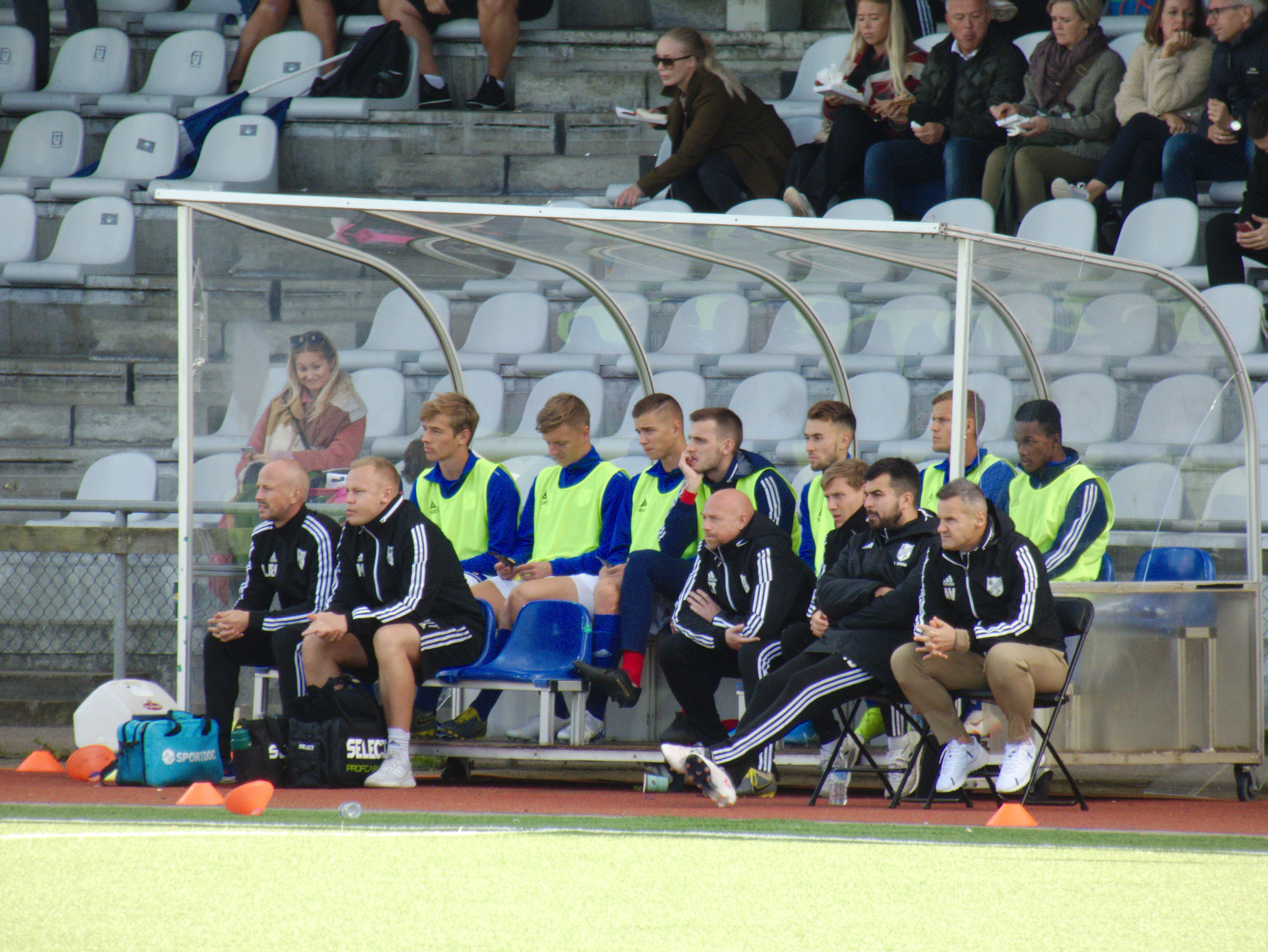 The BK Fremad Amager bench during a match against Viborg FF in the Danish 1st division.